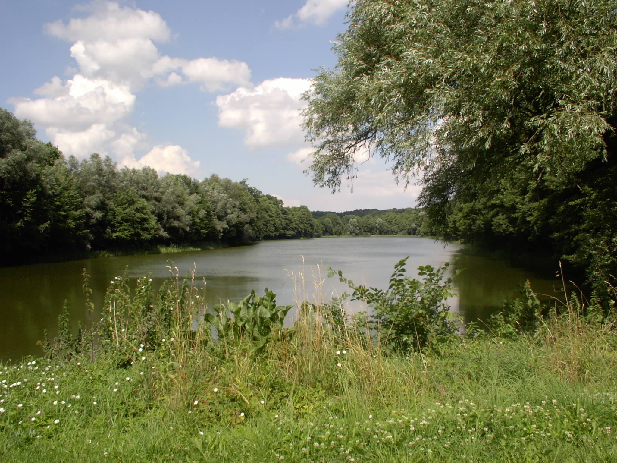 Wokuhlsee near Puchow in district Müritz in Mecklenburg-Vorpommern, Germany